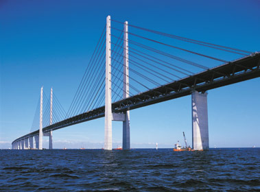 The foto shows the bridge over Øresund between Danmark and Sweden.